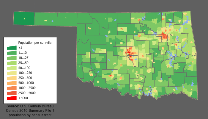 Category:U.S. State Population Maps Category:Oklahoma maps Oklahoma state population density map based on Census 2010 data. See the data lineage for a process description.